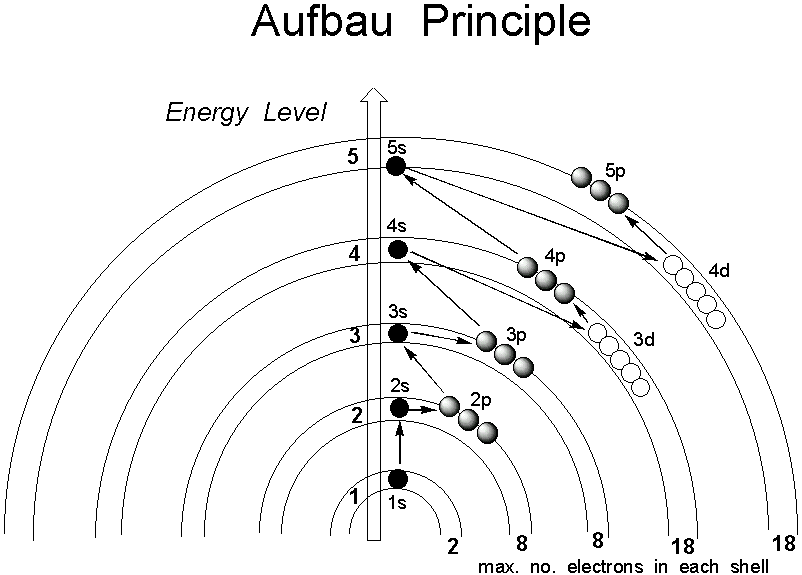 Aufbau principle.